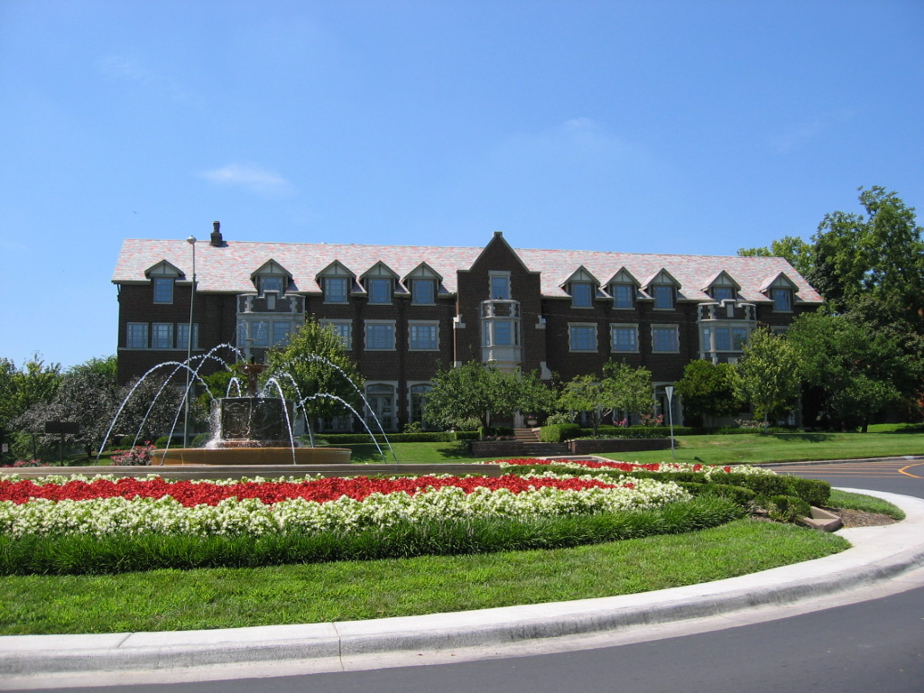 Chi Omega Fountain, the University of Kansas, Lawrence, Kansas